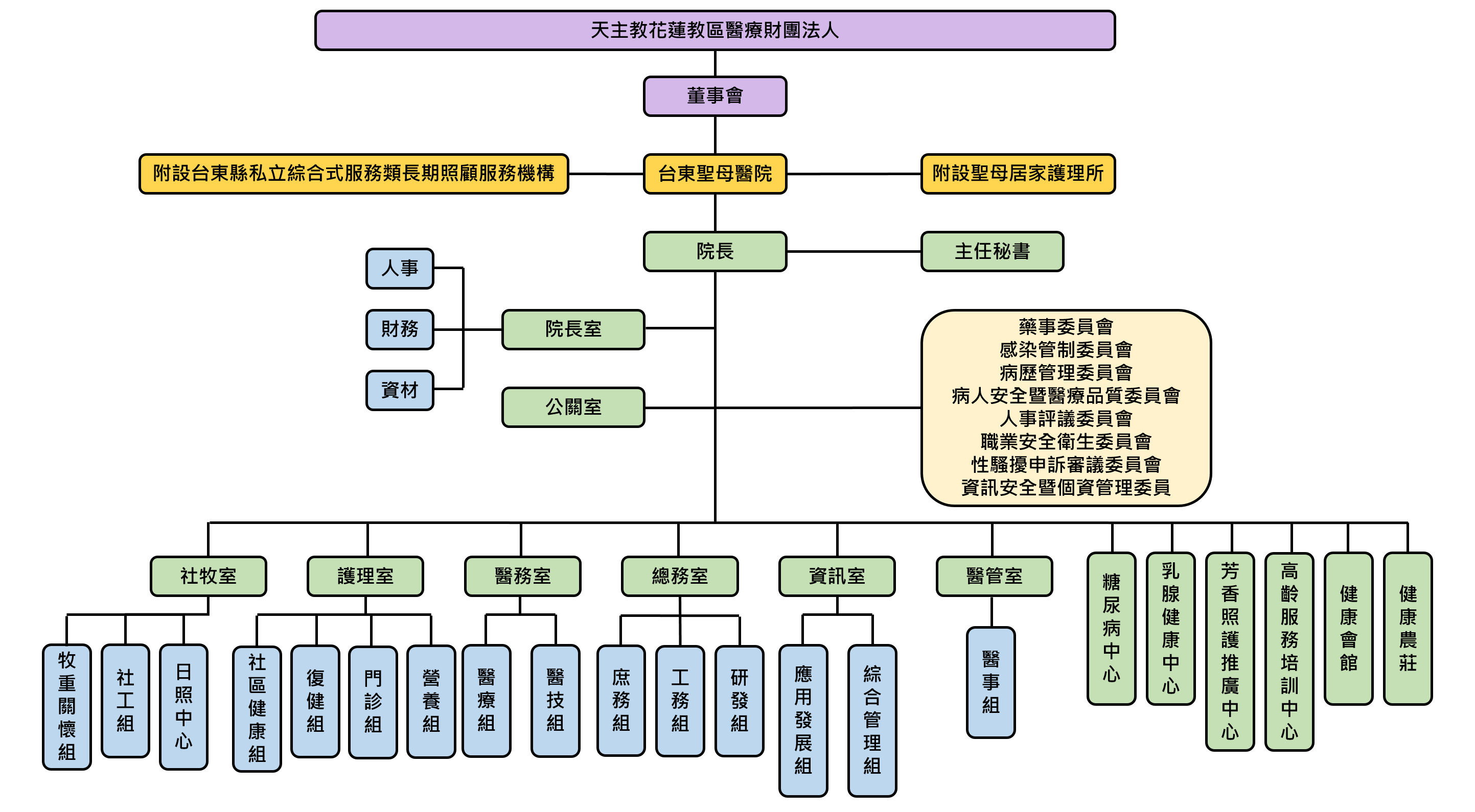 Saint. Mary’s Hospital Taitung Organization